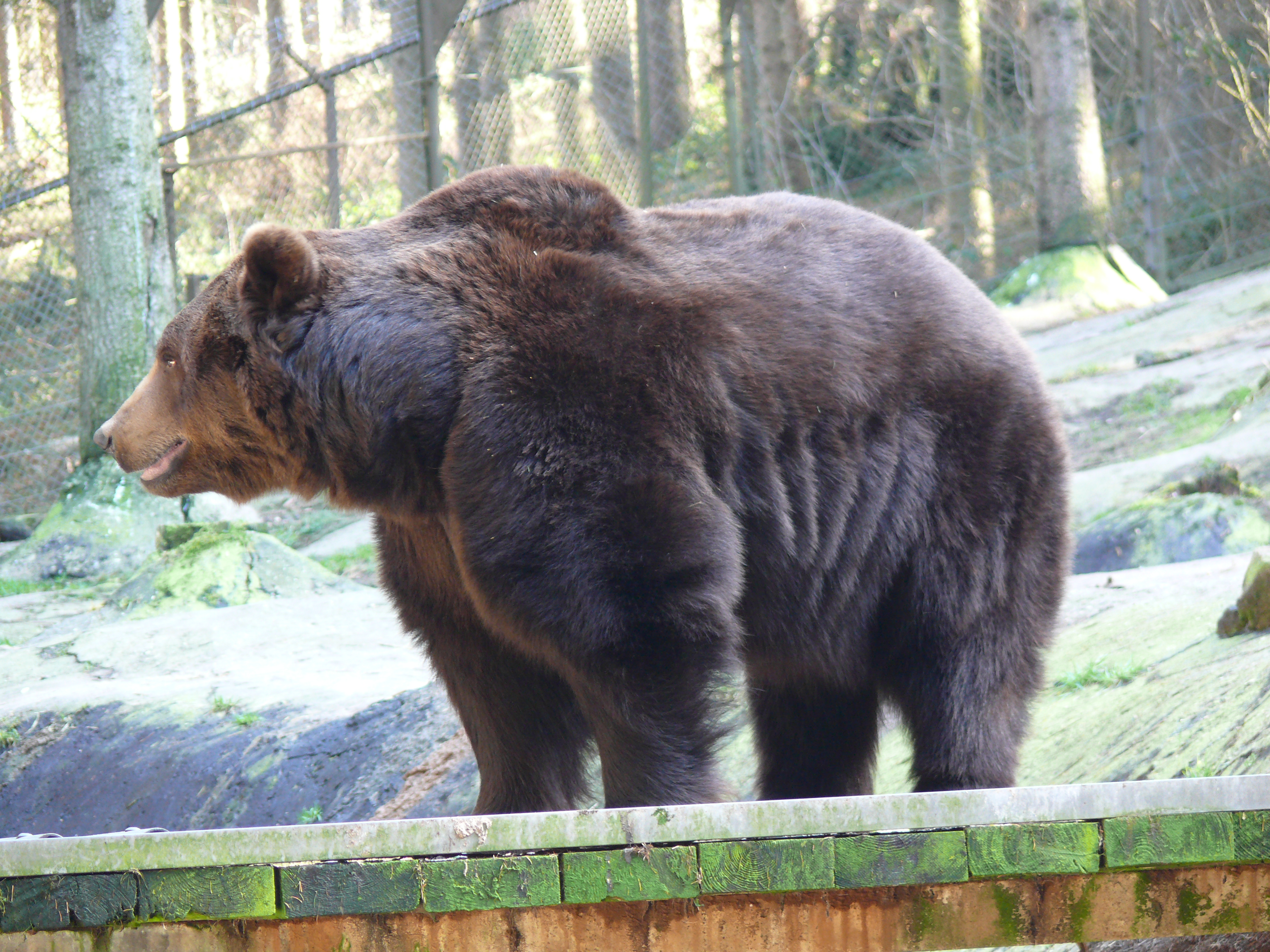 Kodiak Bear